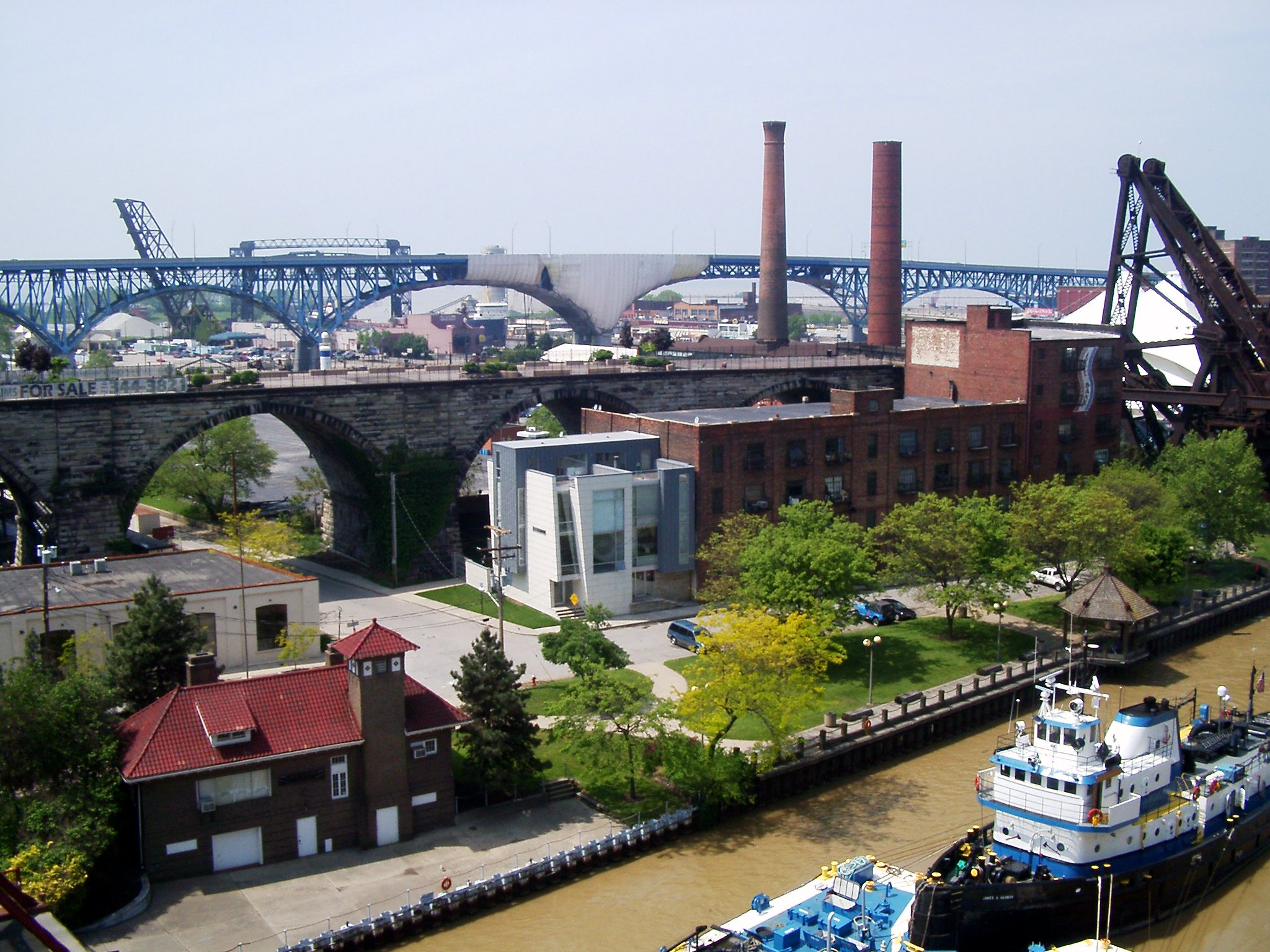 View of the west bank of the flats in Cleveland, Ohio, from the lower deck of the Detroit-Superior Bridge